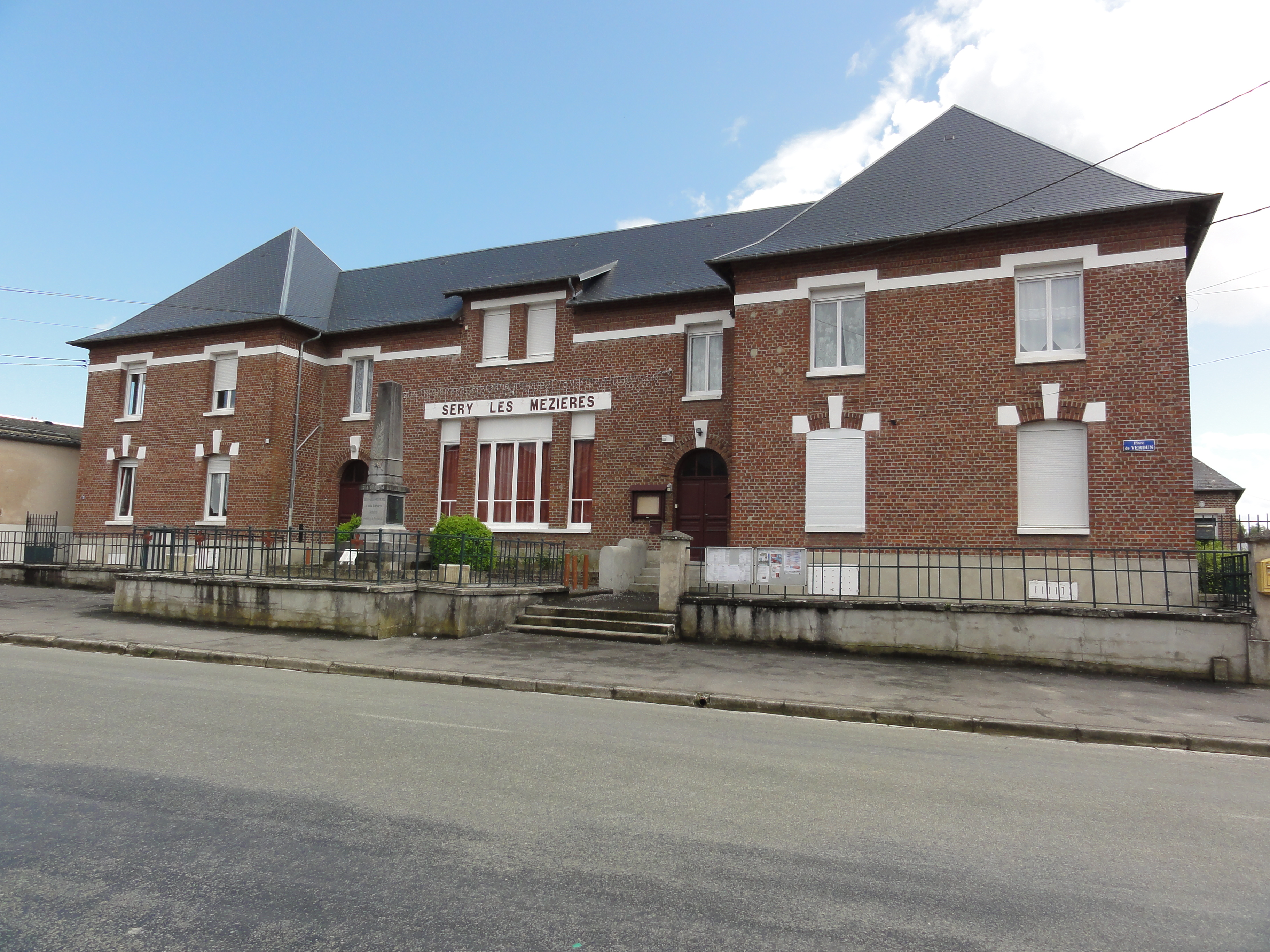 Séry-lès-Mézières (Aisne) mairie